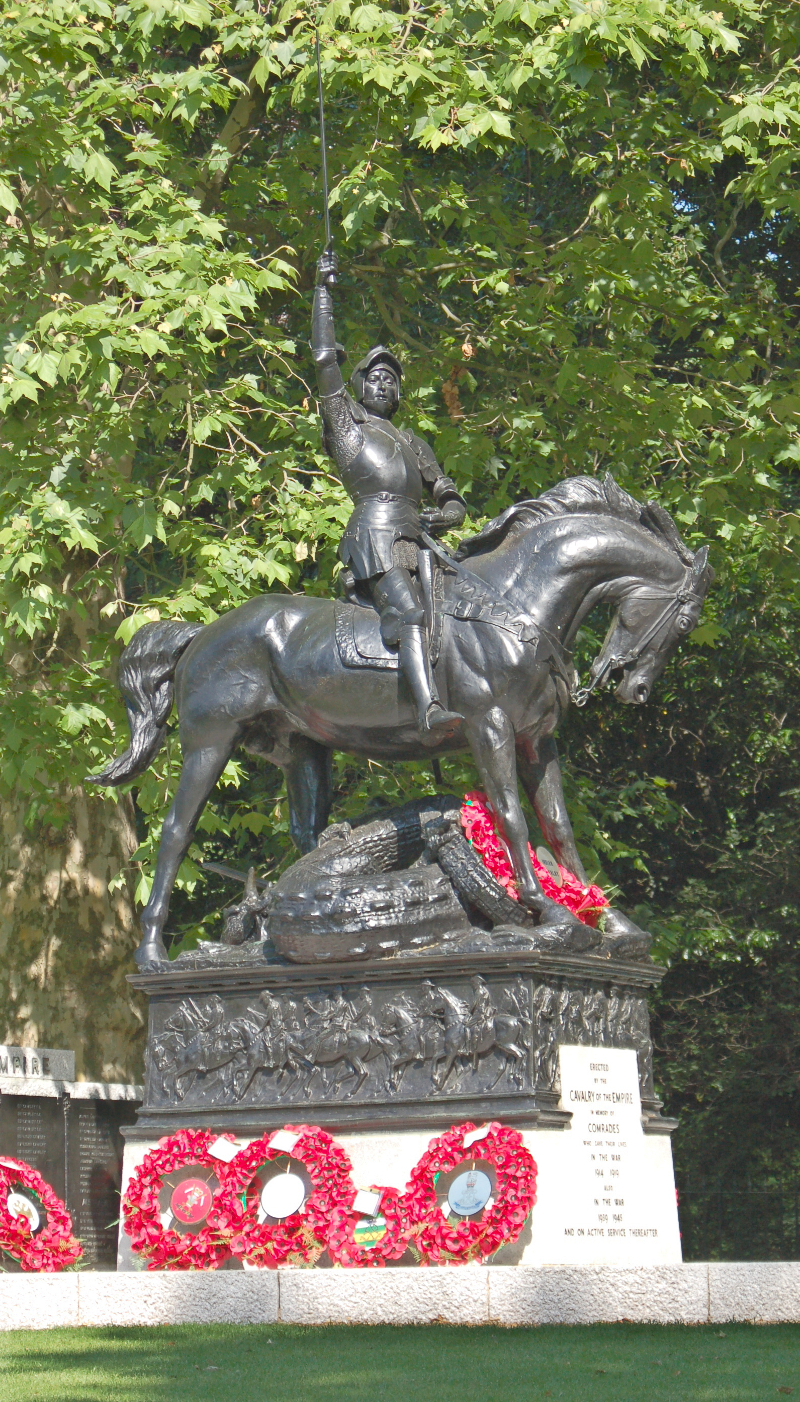 War memorial to the Cavalry of Empire, Hyde Park, London. Sculpted by Adrian Jones, 1906